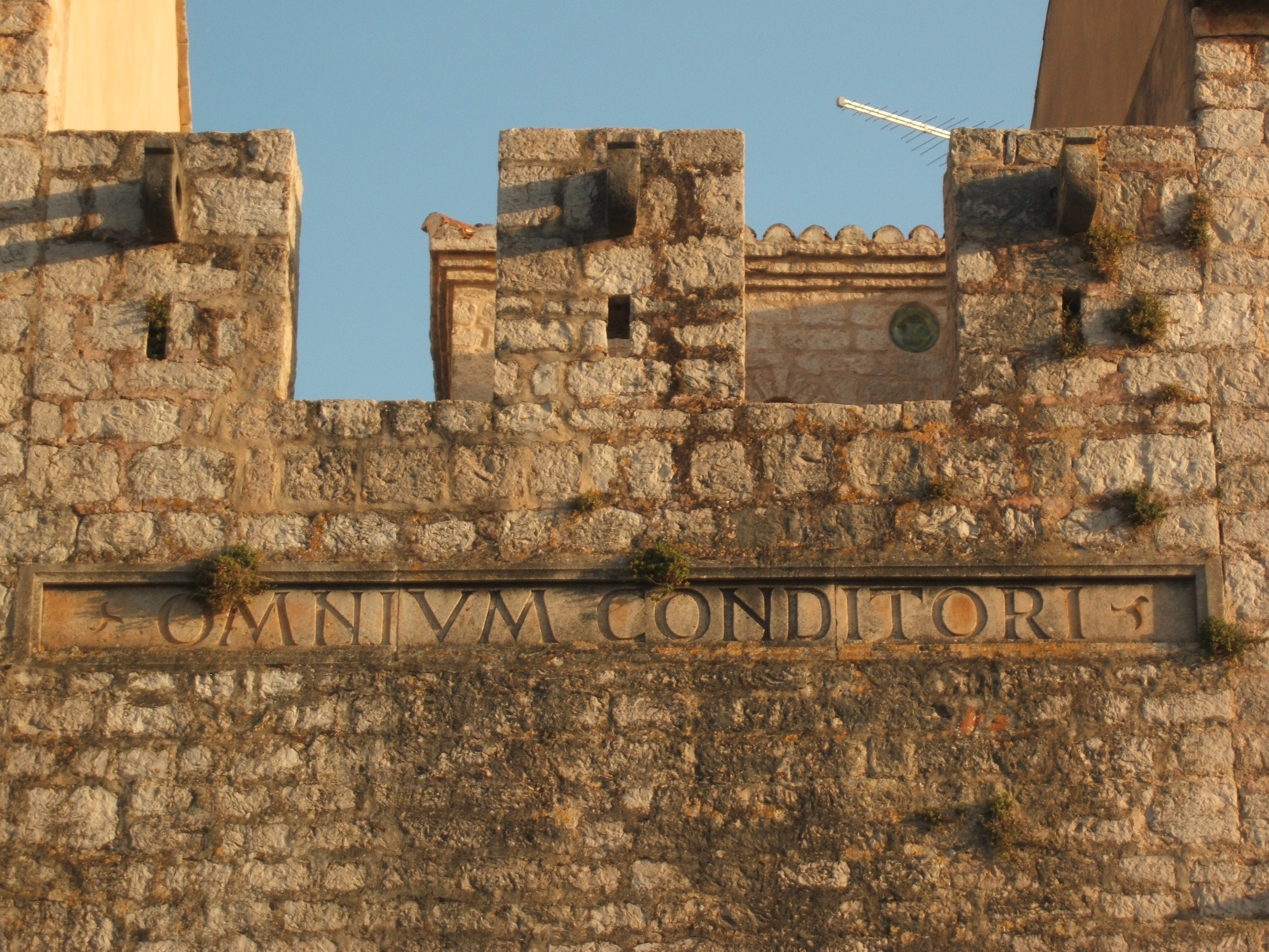 "OMNIVM CONDITORI" sign on Tvrdalj castle in Stari Grad, Croatia